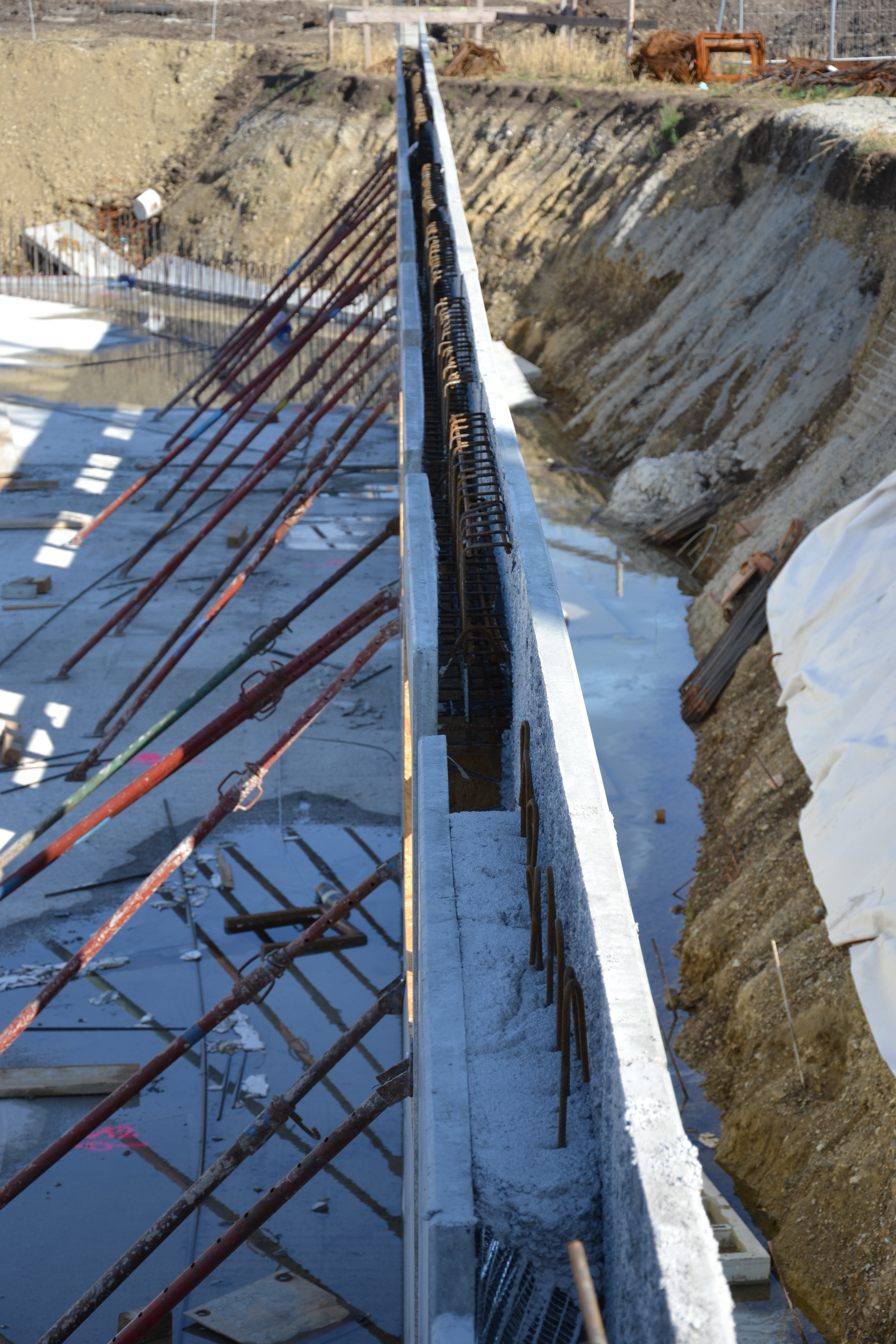 Concret Wall